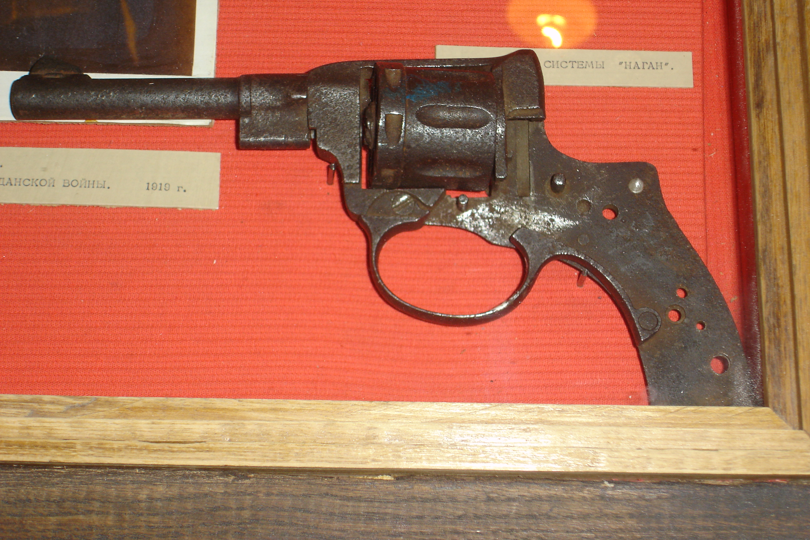 Nagant M.1895 revolver. Konakovo museum of local stuides, Russia, 2009.